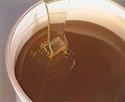 Pouring of maturated honey in pots.